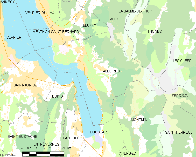 Map of French municipality Talloires